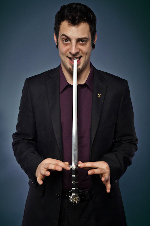 sword swallower Johnny Strange